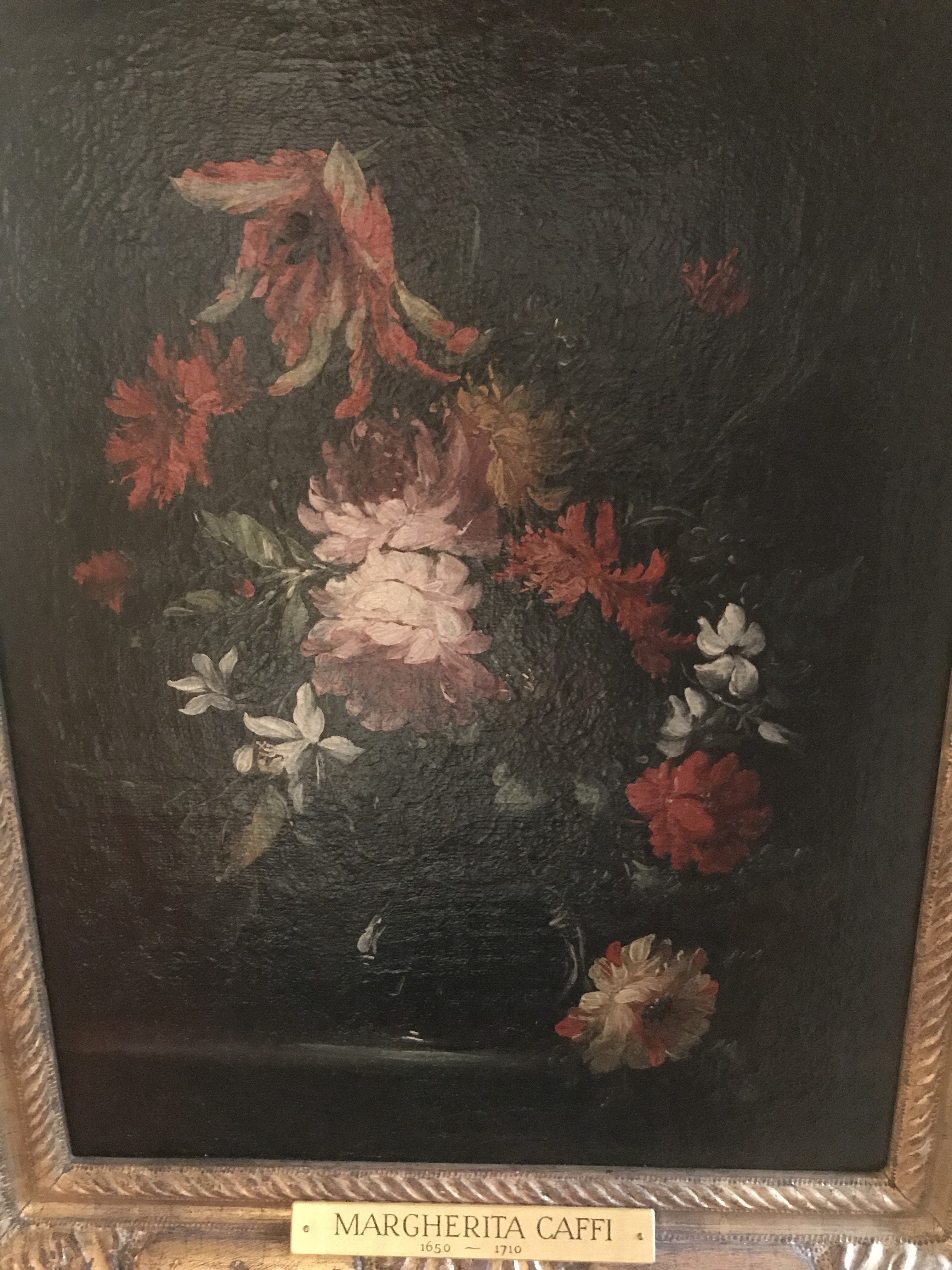 Margherita Caffi (Milan 1650/51 - 1710) still life of flowers in a vase / natura morta di fiori in un vaso, oil on canvas, 39 x 30 cm, framed